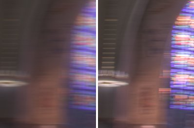 Left: motion blurred LDR image, right: Tone-mapped motion-blurred HDR image